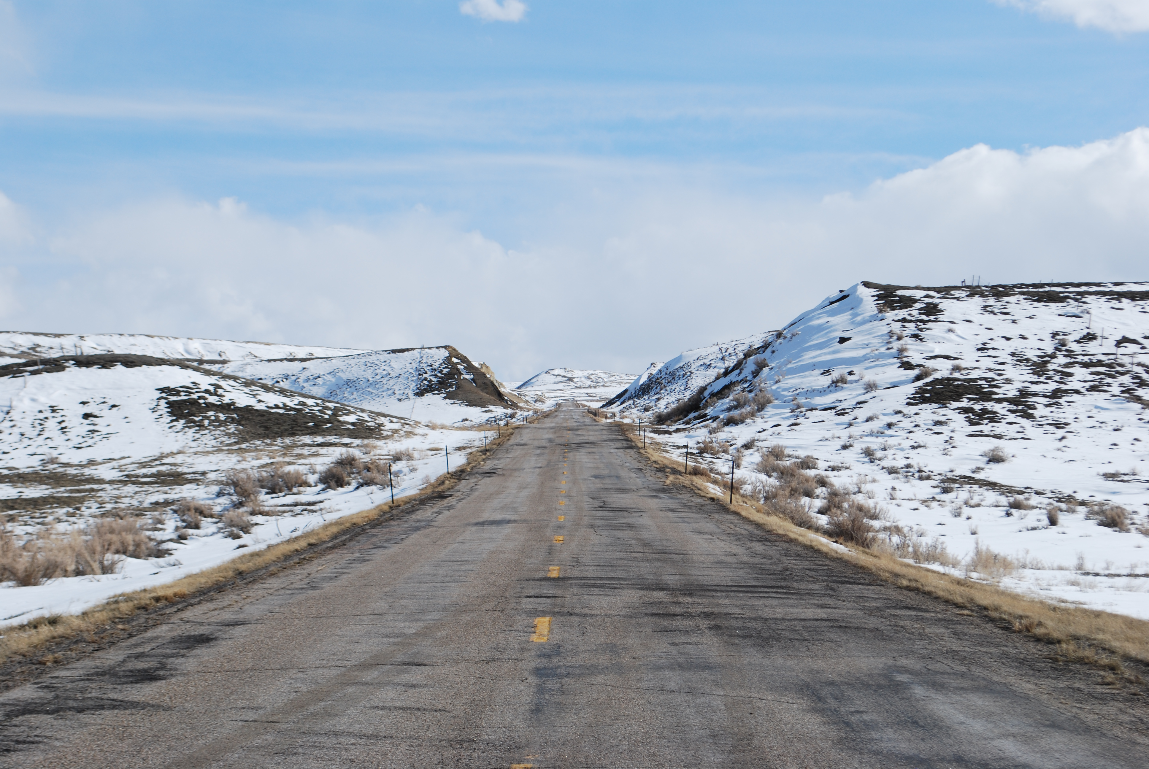 Wyoming 77 April 2014